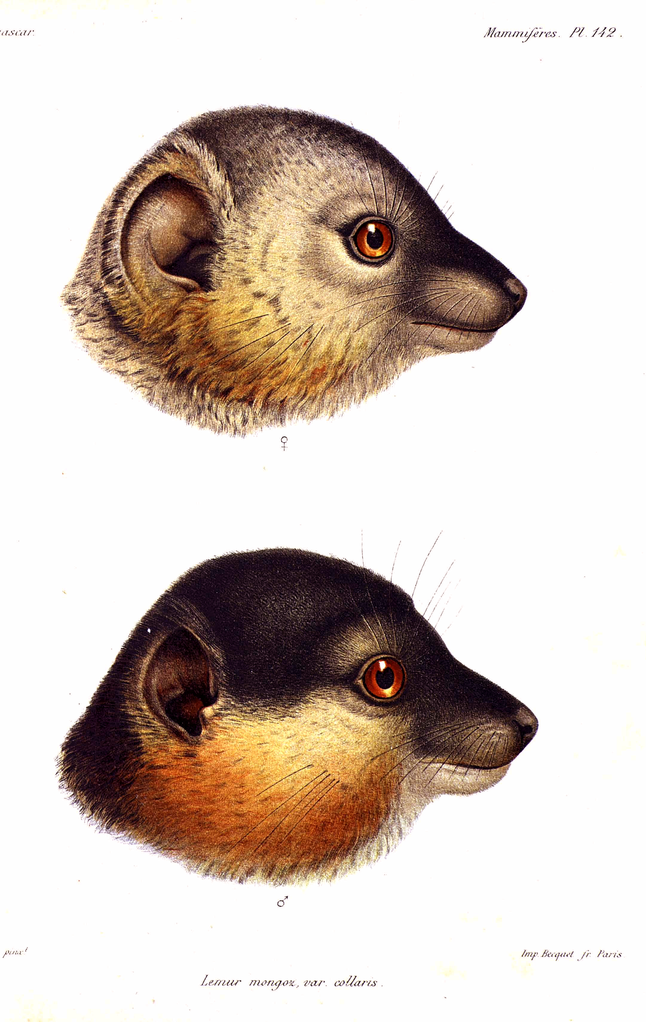 Collared brown lemur (Eulemur collaris) profiles; female on top, male on bottom.